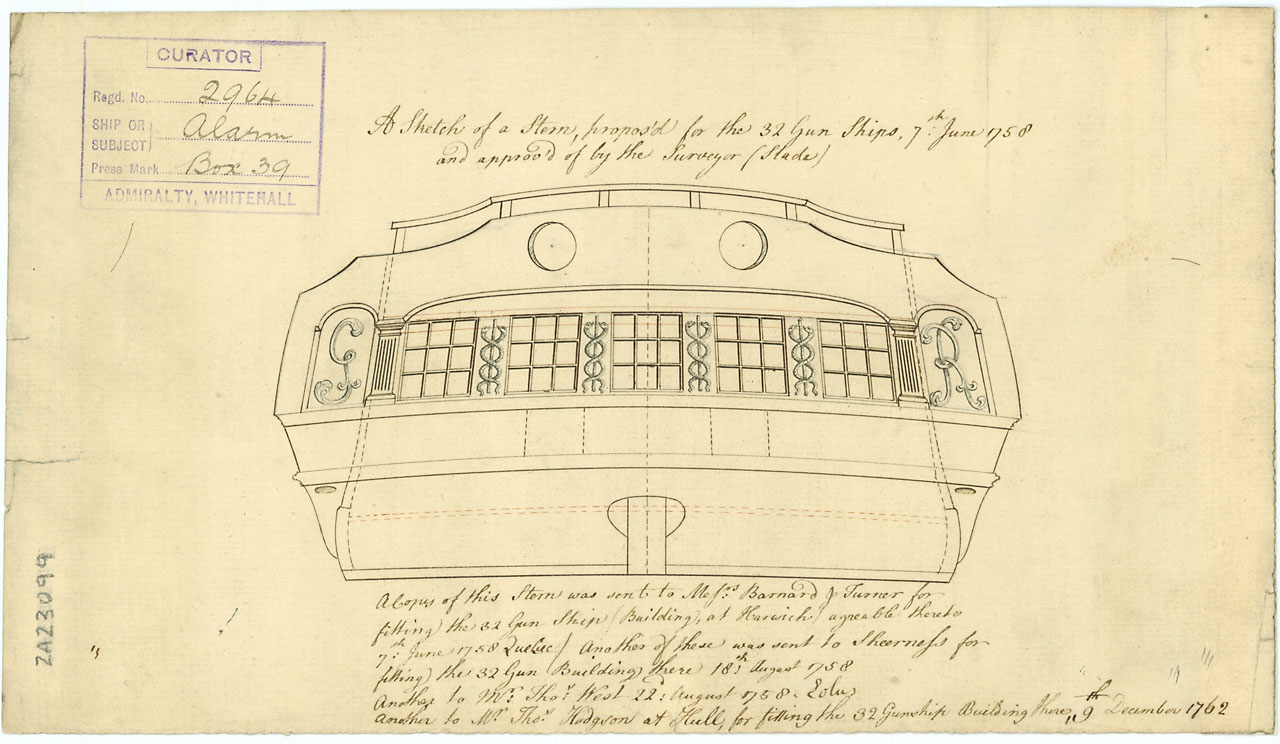 NIGER 1759 stern